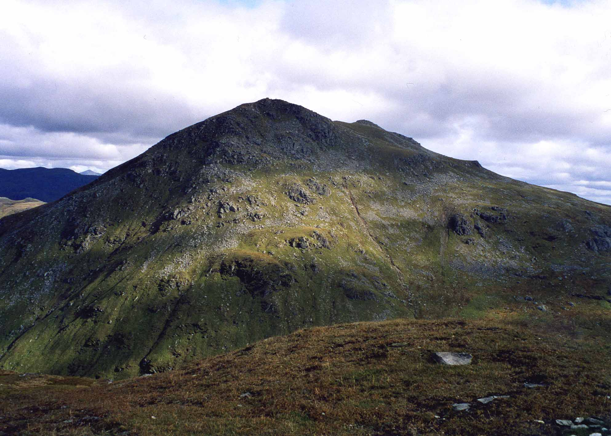 Personal picture taken by Mick Knapton